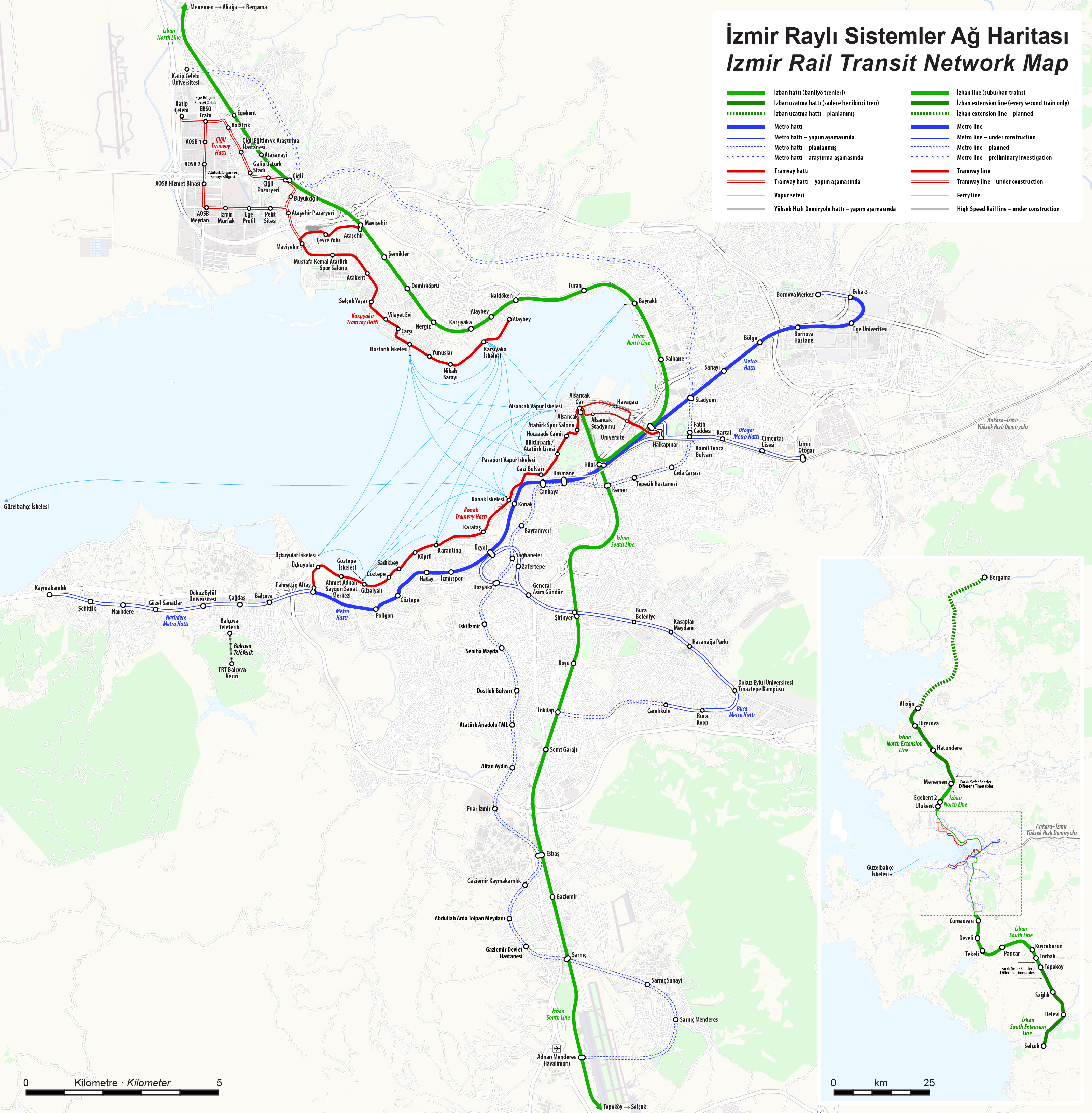 Izmir Rapid Transit Map (subway, tramway and suburban trains)